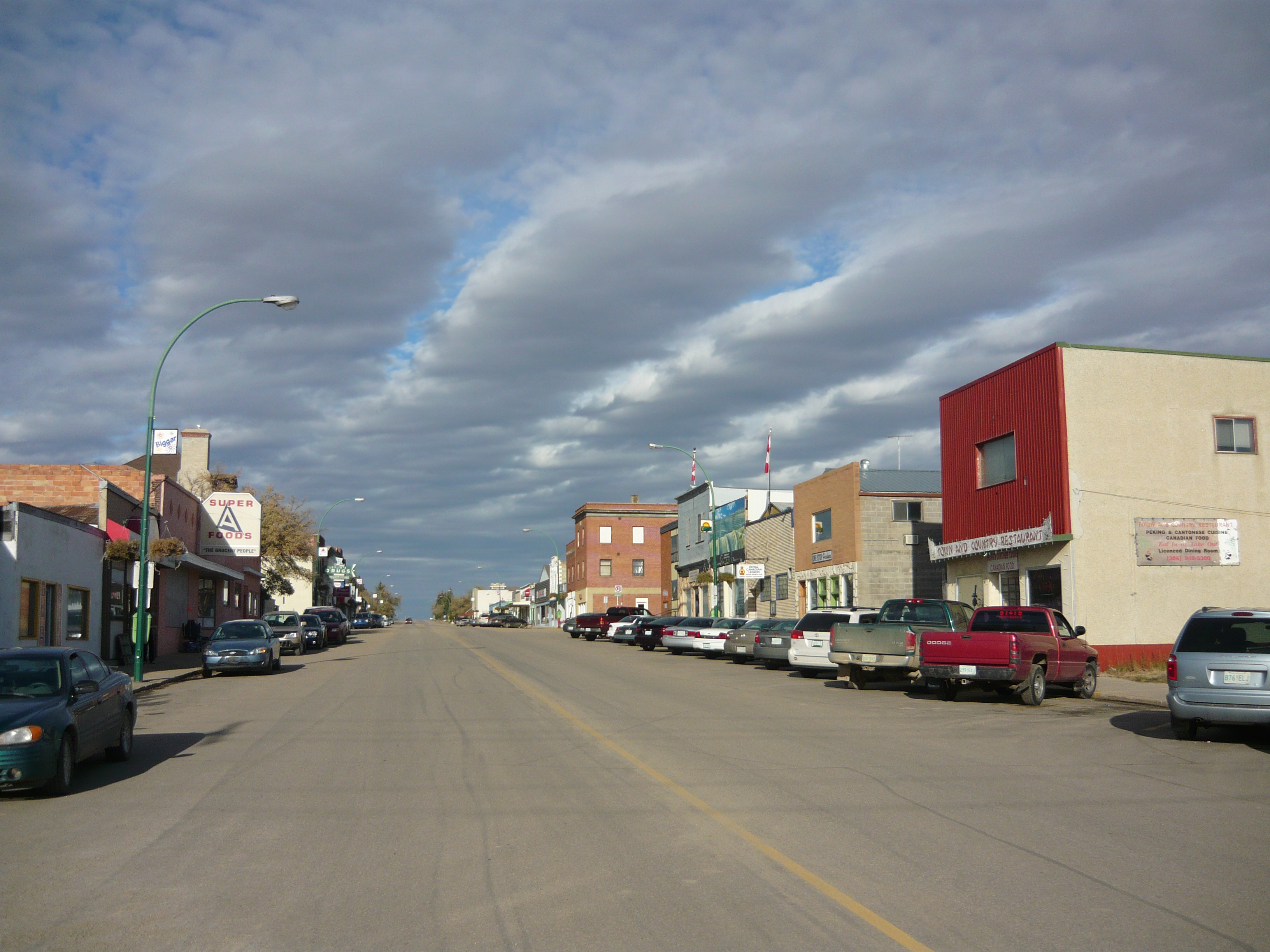 Main Street in Biggar, Saskatchewan, Canada. Looking northward on Main Street from its intersection with First Avenue.